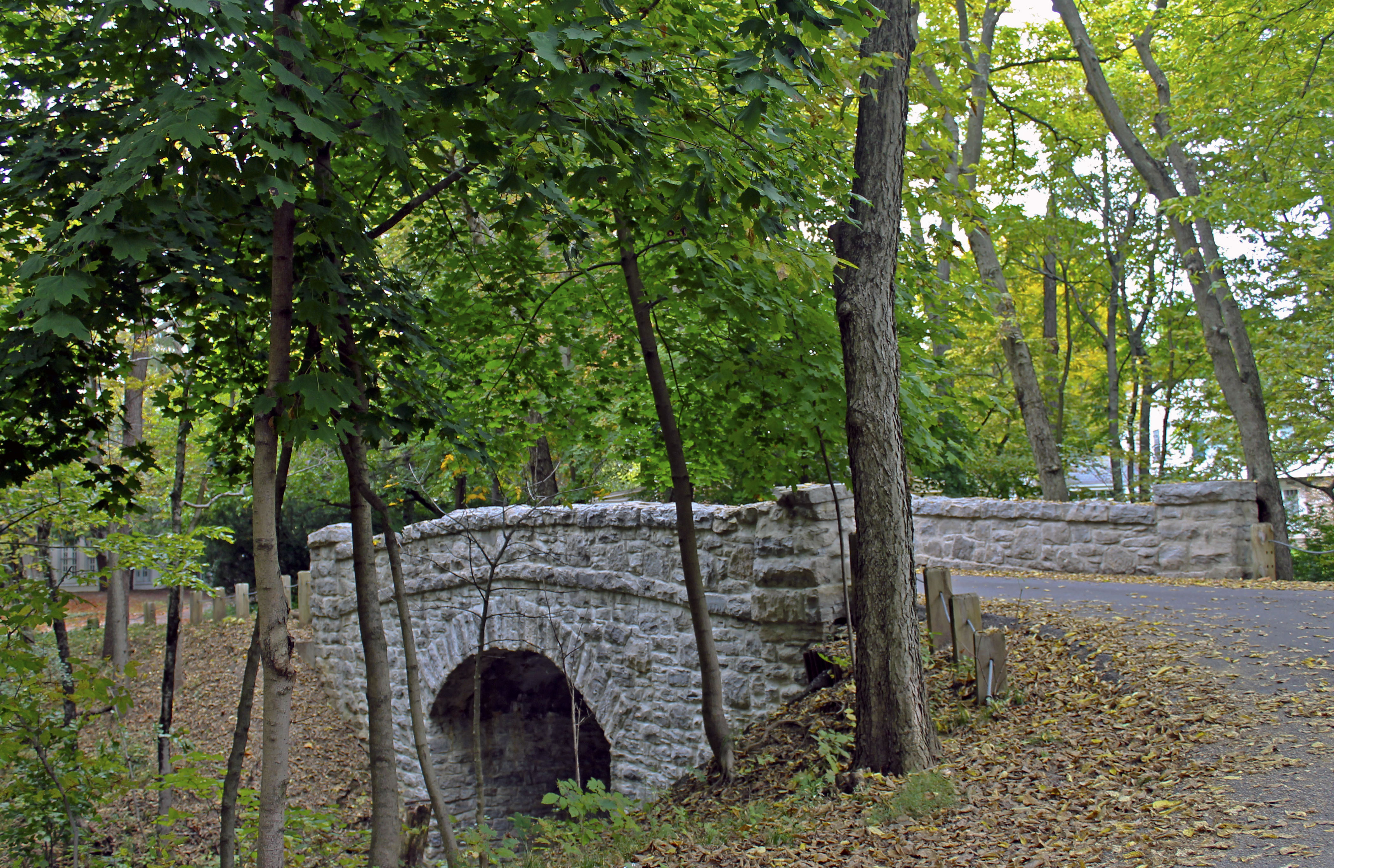 Old Beechwold Historic District, Roughly bounded by W. Jeffrey Pl., N. High, River Park Dr., and Olentangy Boulevard